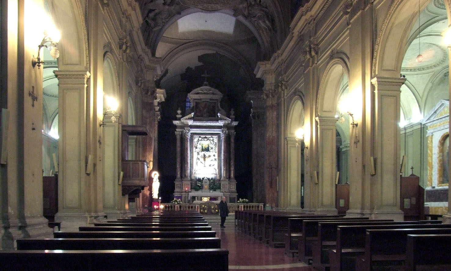 Sant'Eusebio all'Esquilino, church at Rome, Italy